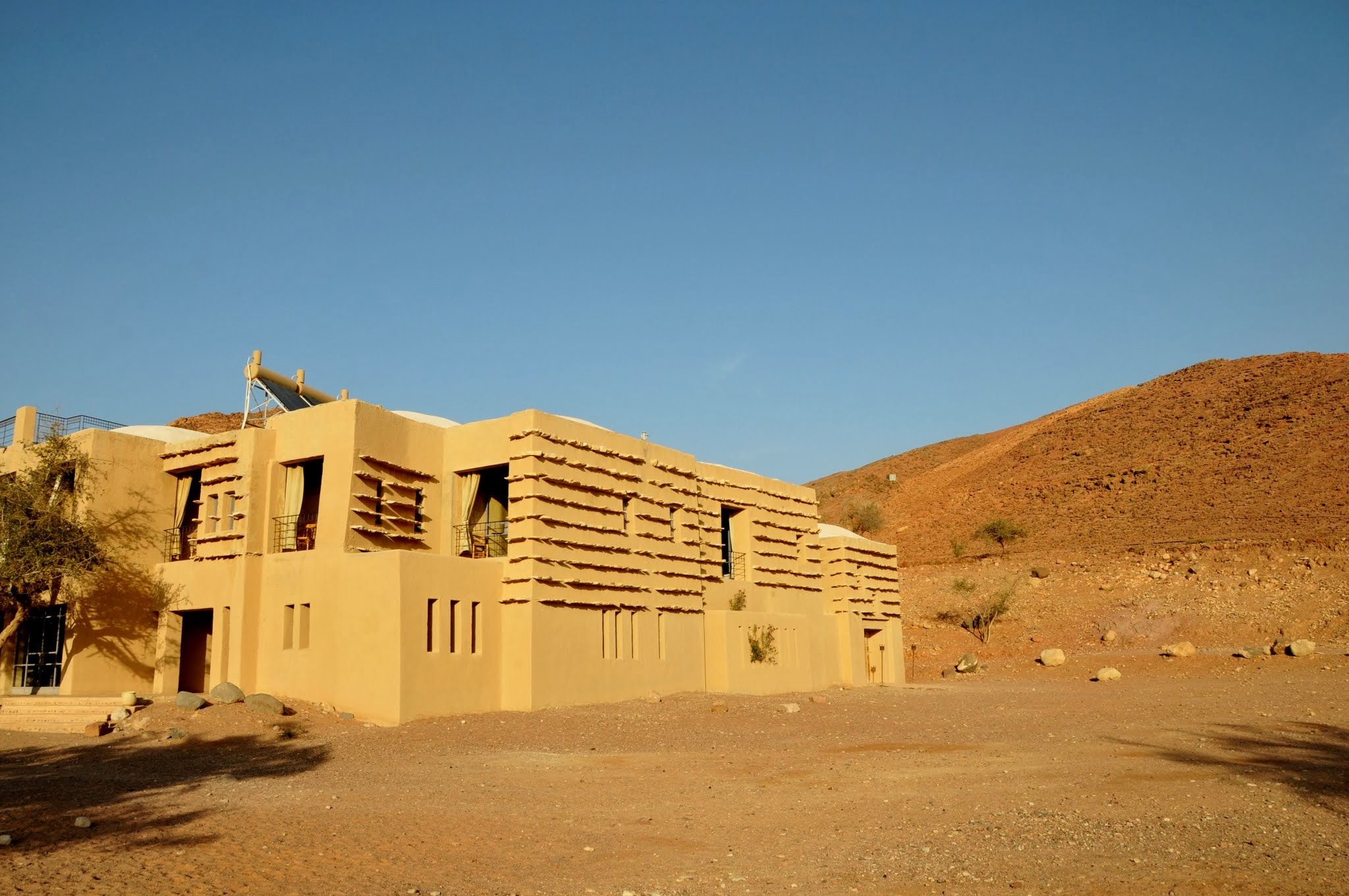 32 Dana Feynan Trail - The Feynan Lodge